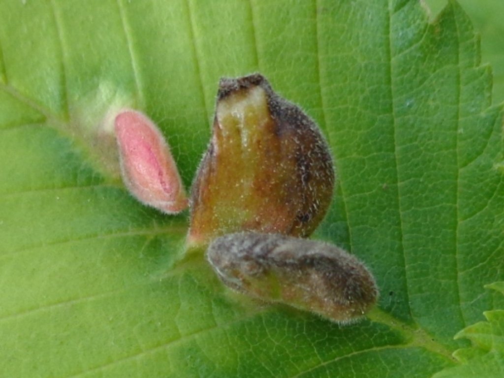 Tetraneura ulmi. Found in Riga town, Latvia